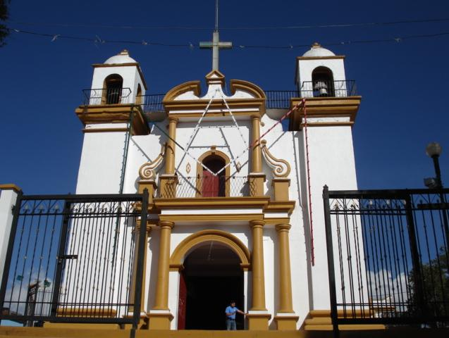 iglesia de guadalupe en san cristobal de las casas